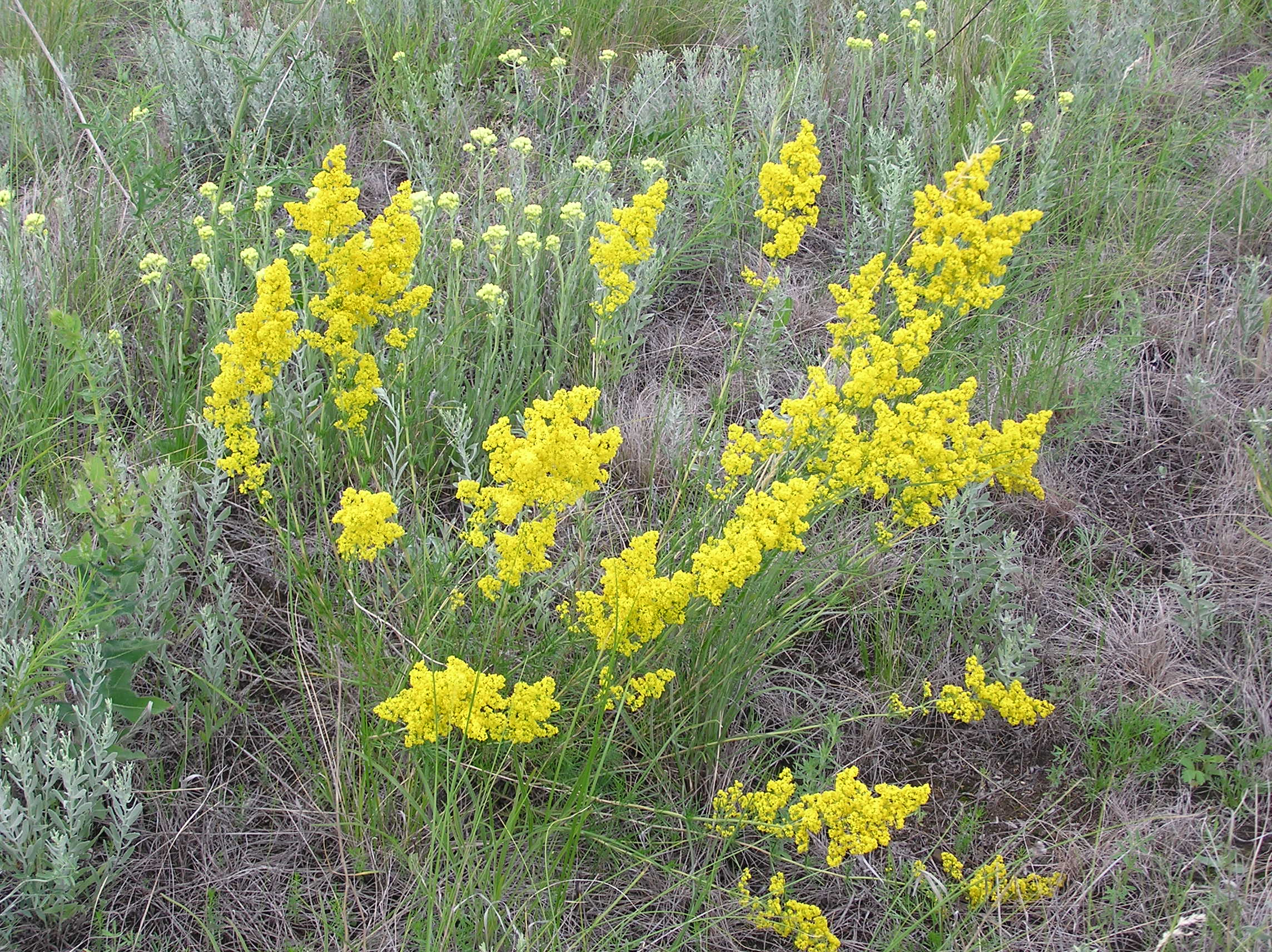 Galium verum L. (Lady's Bedstraw or Yellow Bedstraw). Habitat: opening in upland deciduous forest. Vicinity of Saratov city, Russia.